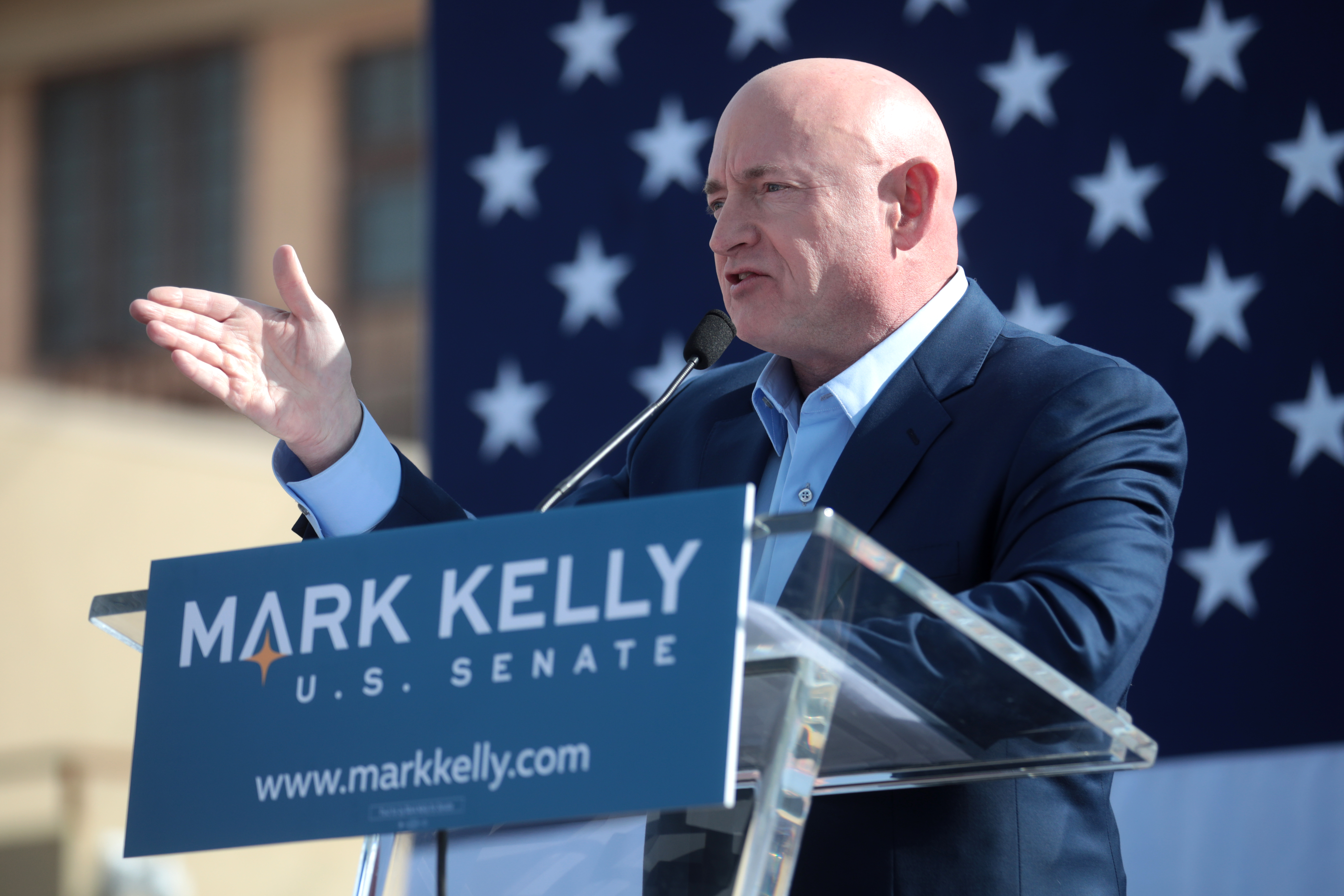 Mark Kelly speaking with supporters at the Phoenix launch of his U.S. Senate campaign at The Van Buren in Phoenix, Arizona.